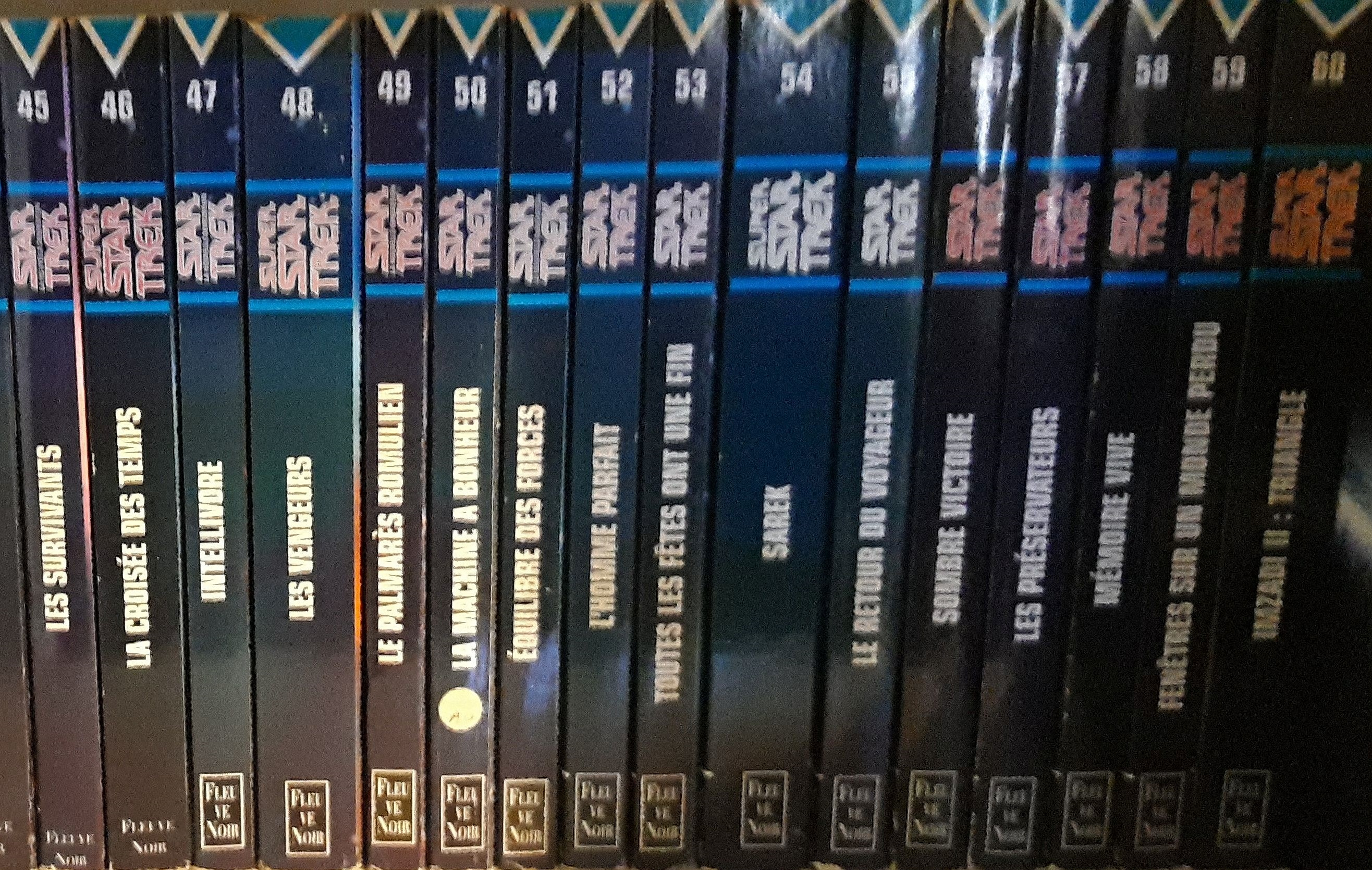 Star Trek french books first serie 45-60.